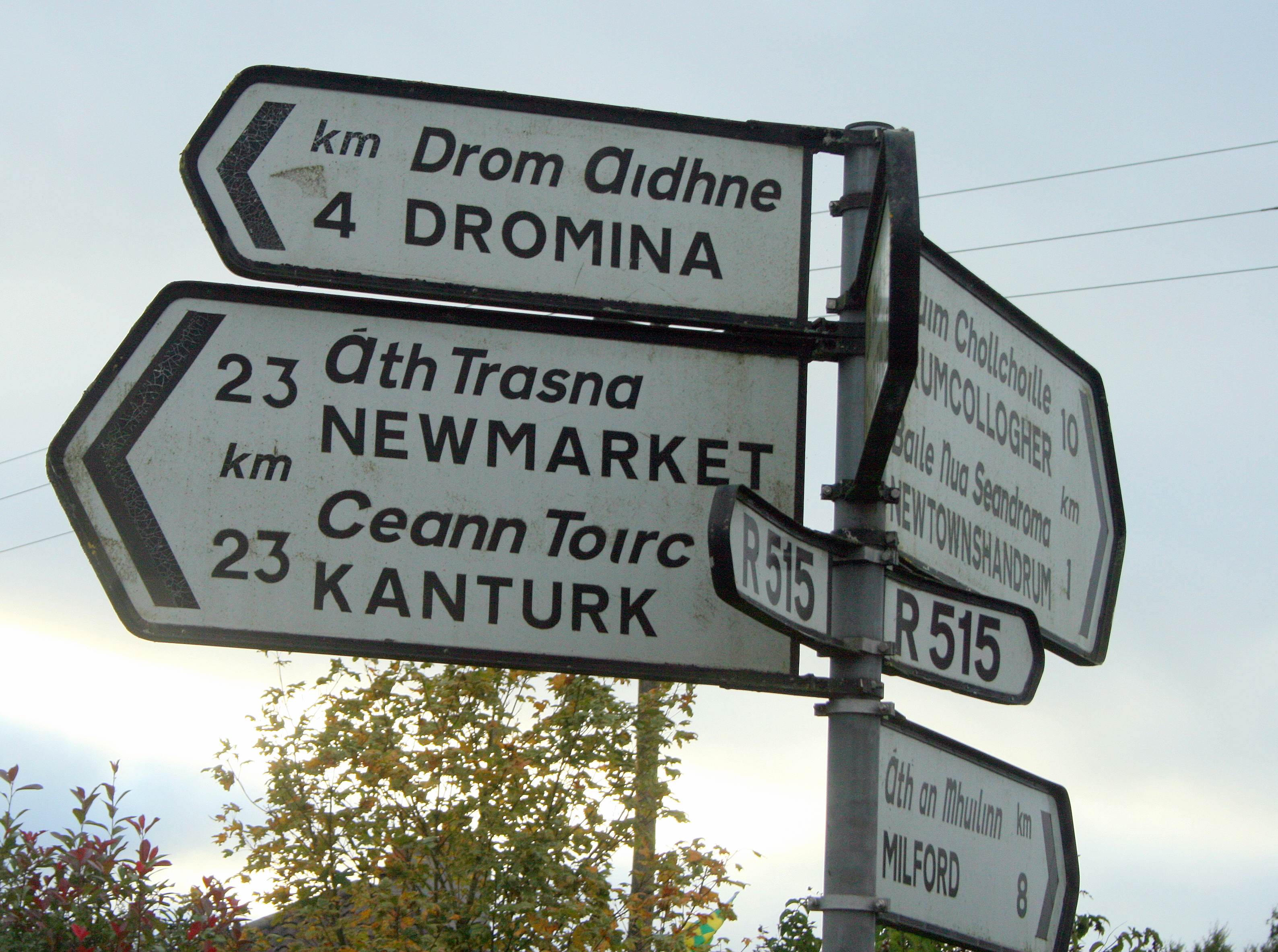 Sign near Newtownshandrum, County Cork